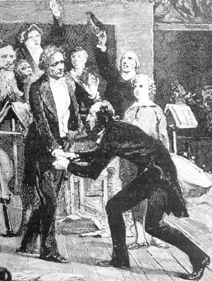 Contemporary engraving of Hector Berlioz (1803 – 1869) and Paganini